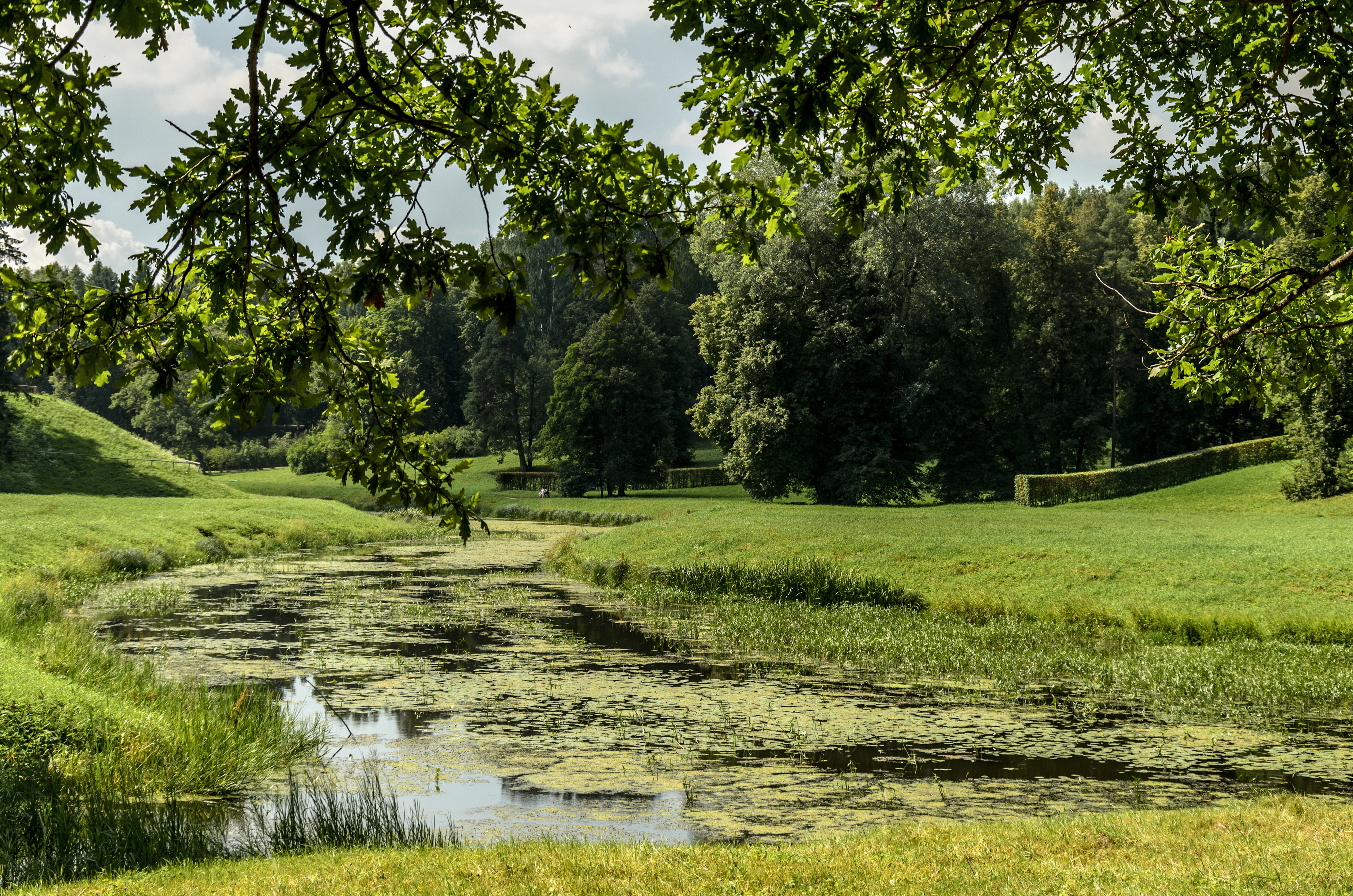 Pavlovsk Park in Saint Petersburg